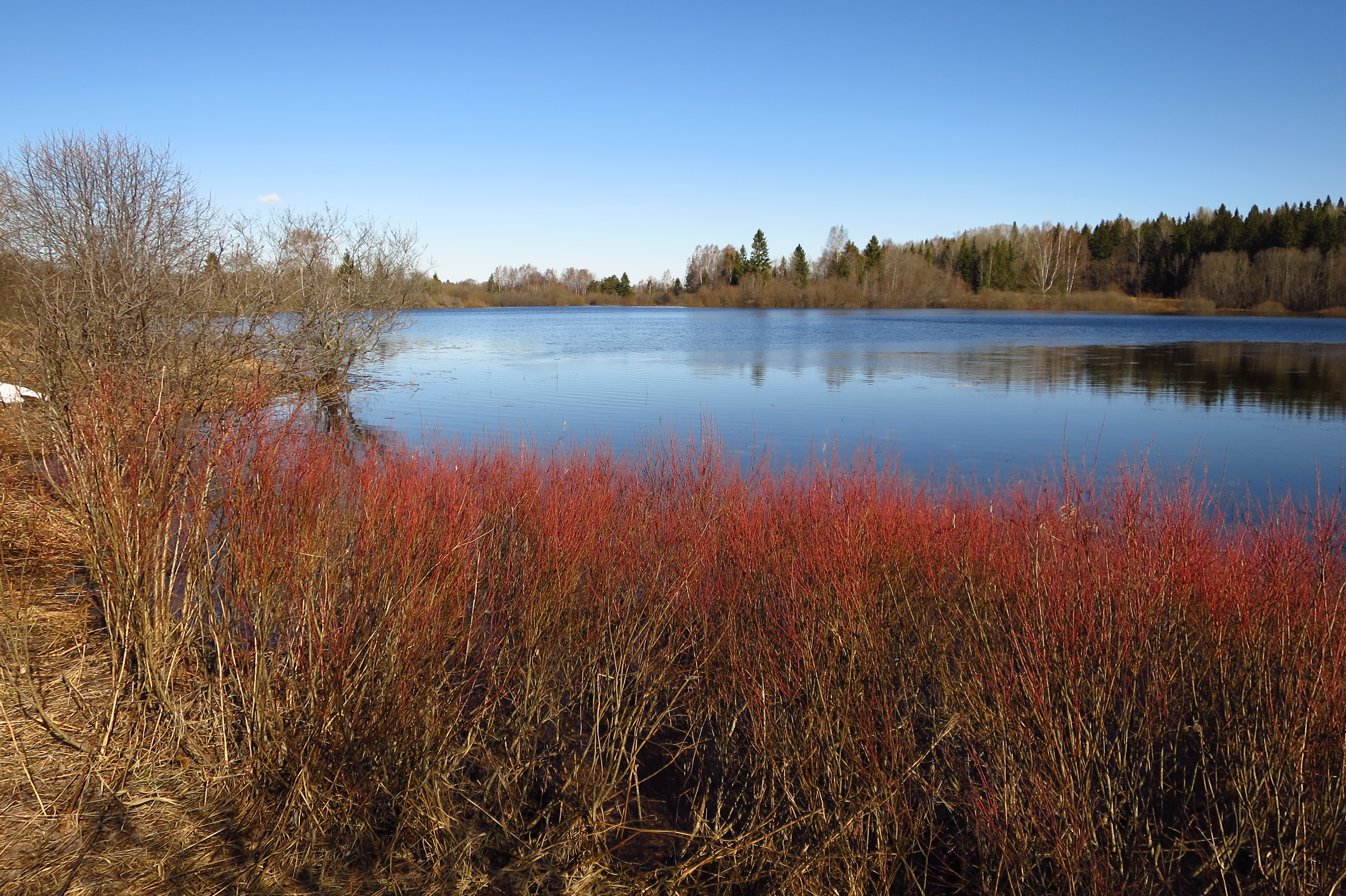 Saksi järv Lääne-Virumaal kevadel